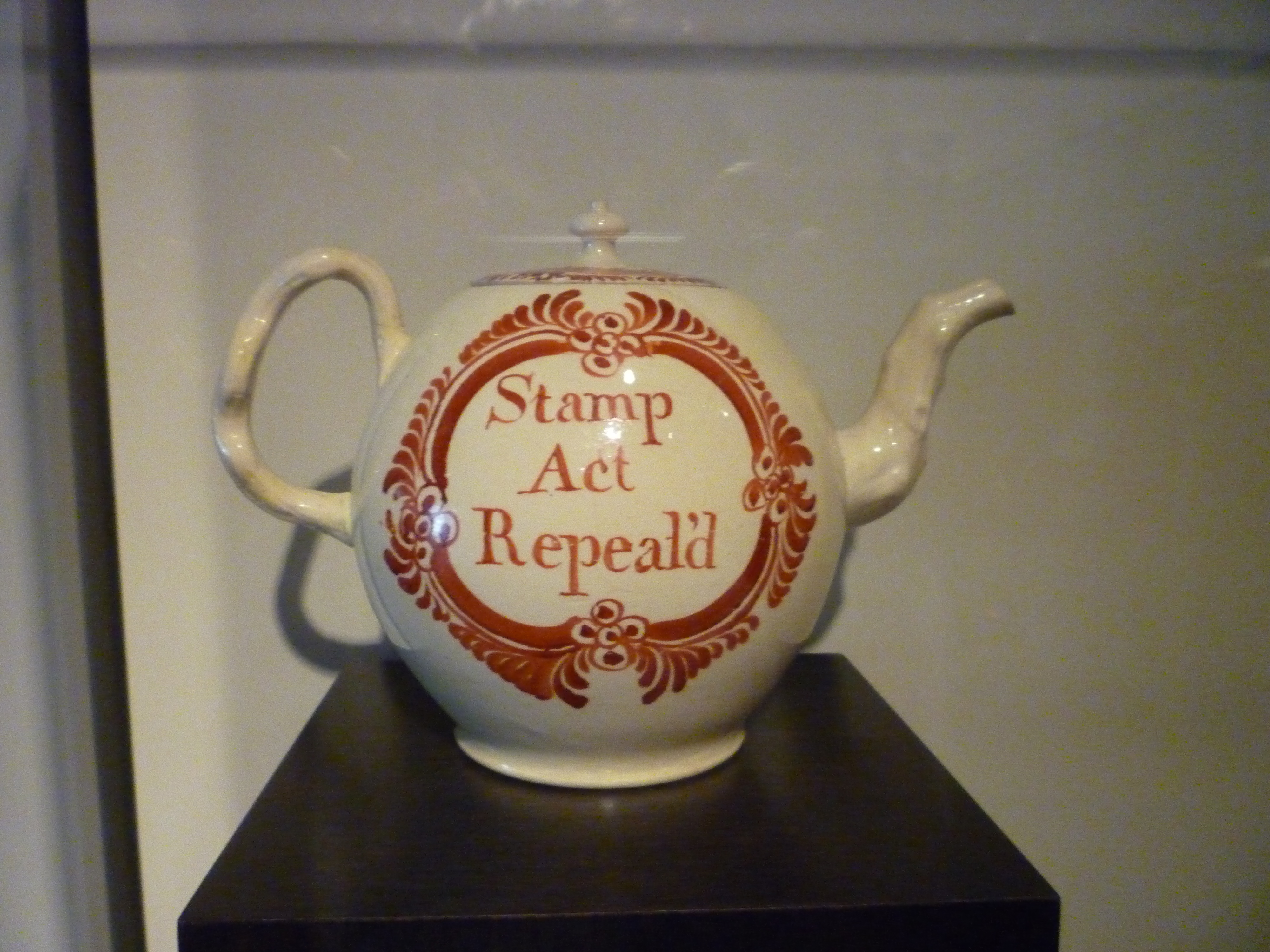 Teapot, "Stamp Act Repeal'd". Lead-glazed and hand-painted earthenware.